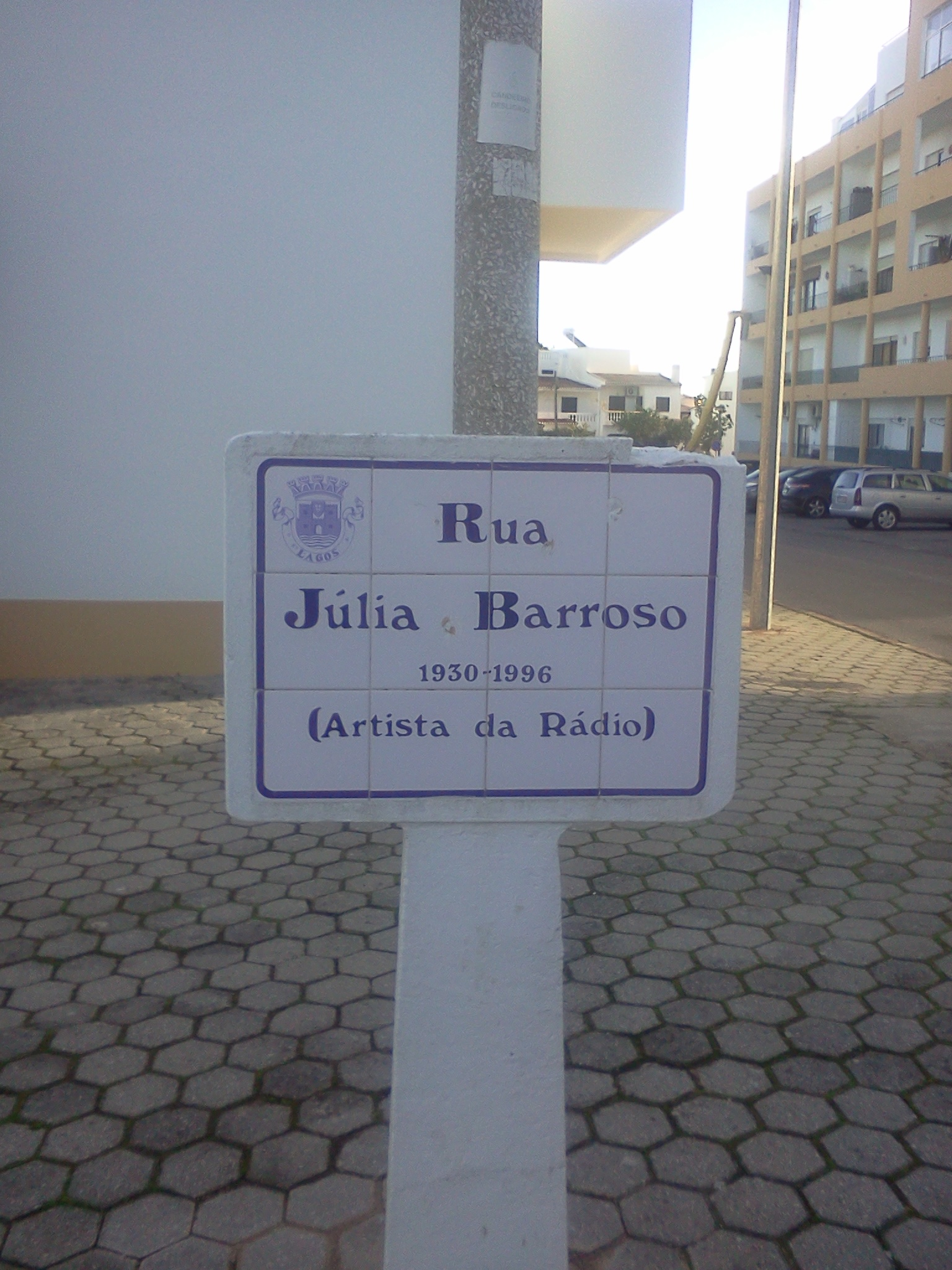 Street sign of Rua Júlia Barroso, in the city of Lagos, in southern Portugal.